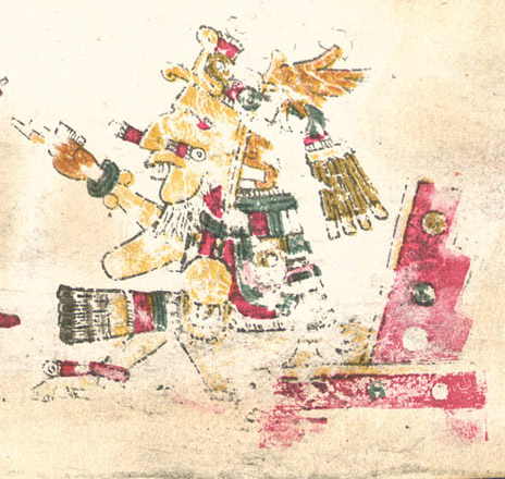 Tonacatecuhtli described in the Codex Borgia.